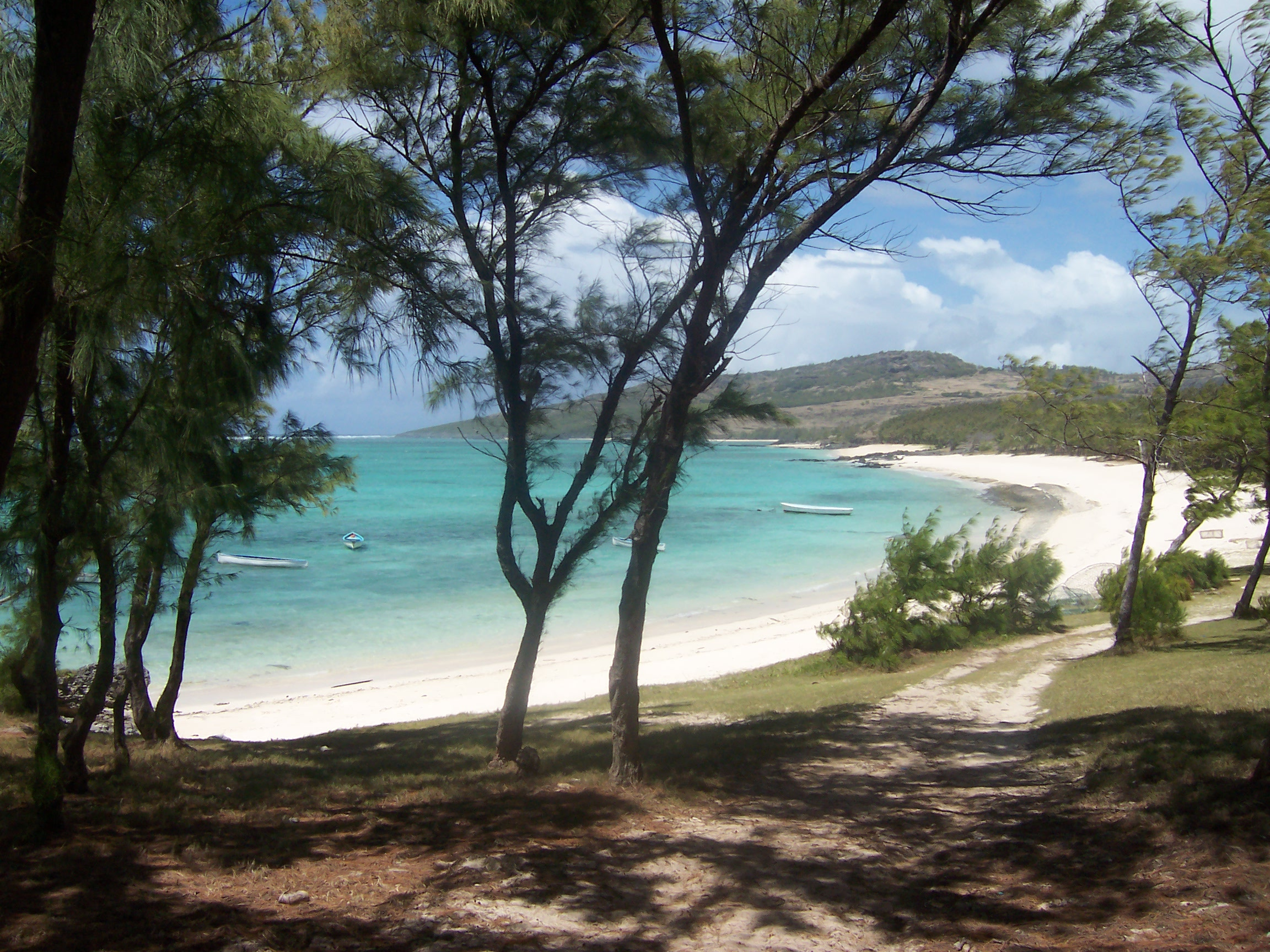 A beach of Rodrigues island : the Anse Ali